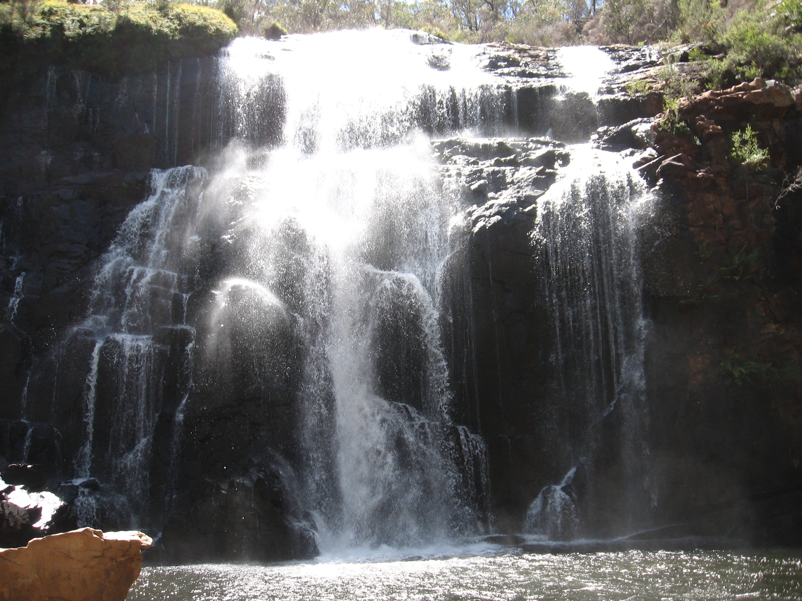 MacKenzie Falls, Grampians National Park, Victoria, Australia